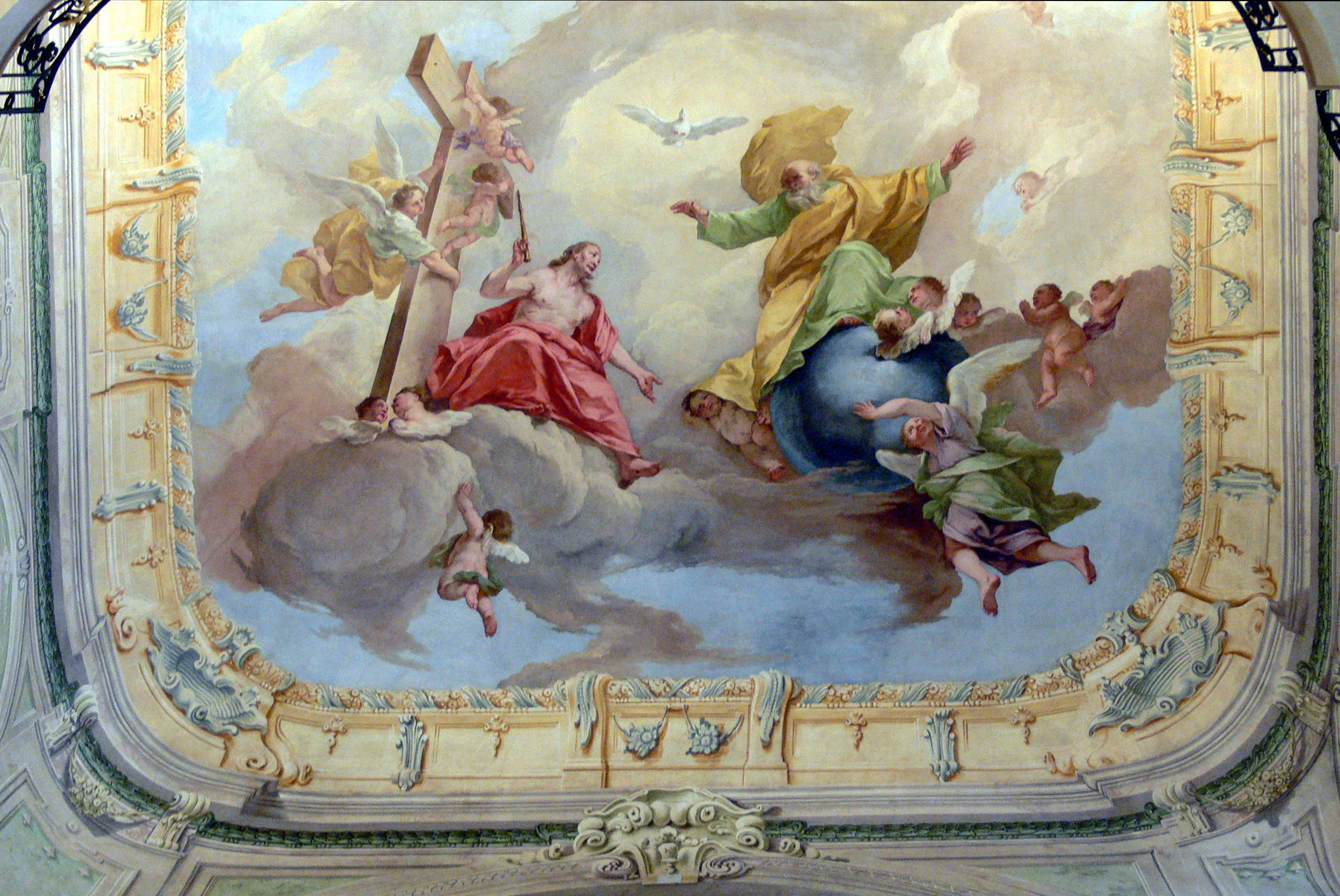 Rožmberk palace ( Prague castle ). Chapel of the Holy Trinity and Immaculate Conception ( 1755 ): Fresco at the ceiling showing the Holy Trinity by J.P.Molitor.